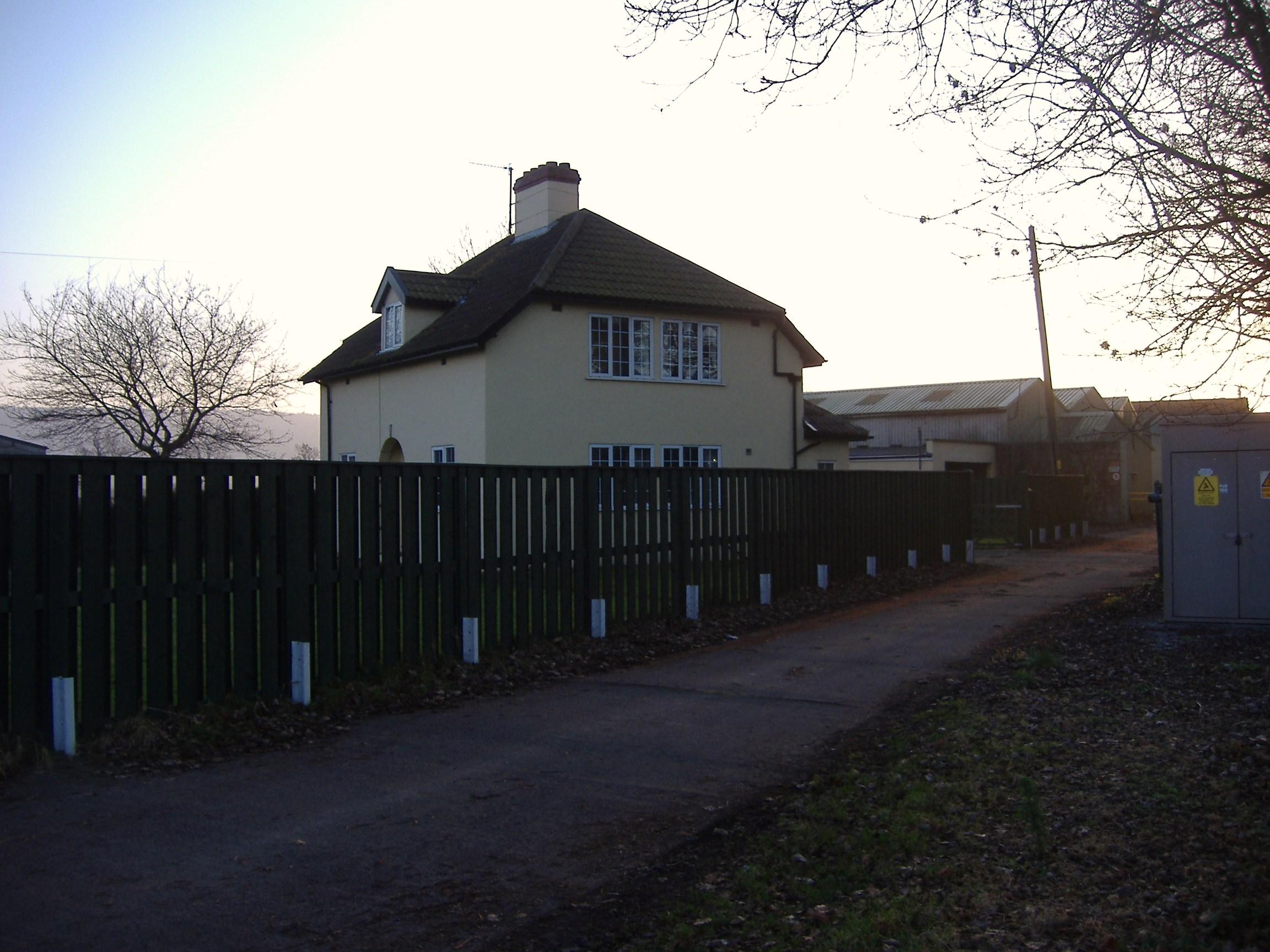 The approximate location of Clapton Halt on the Weston, Clevedon and Portishead Railway.